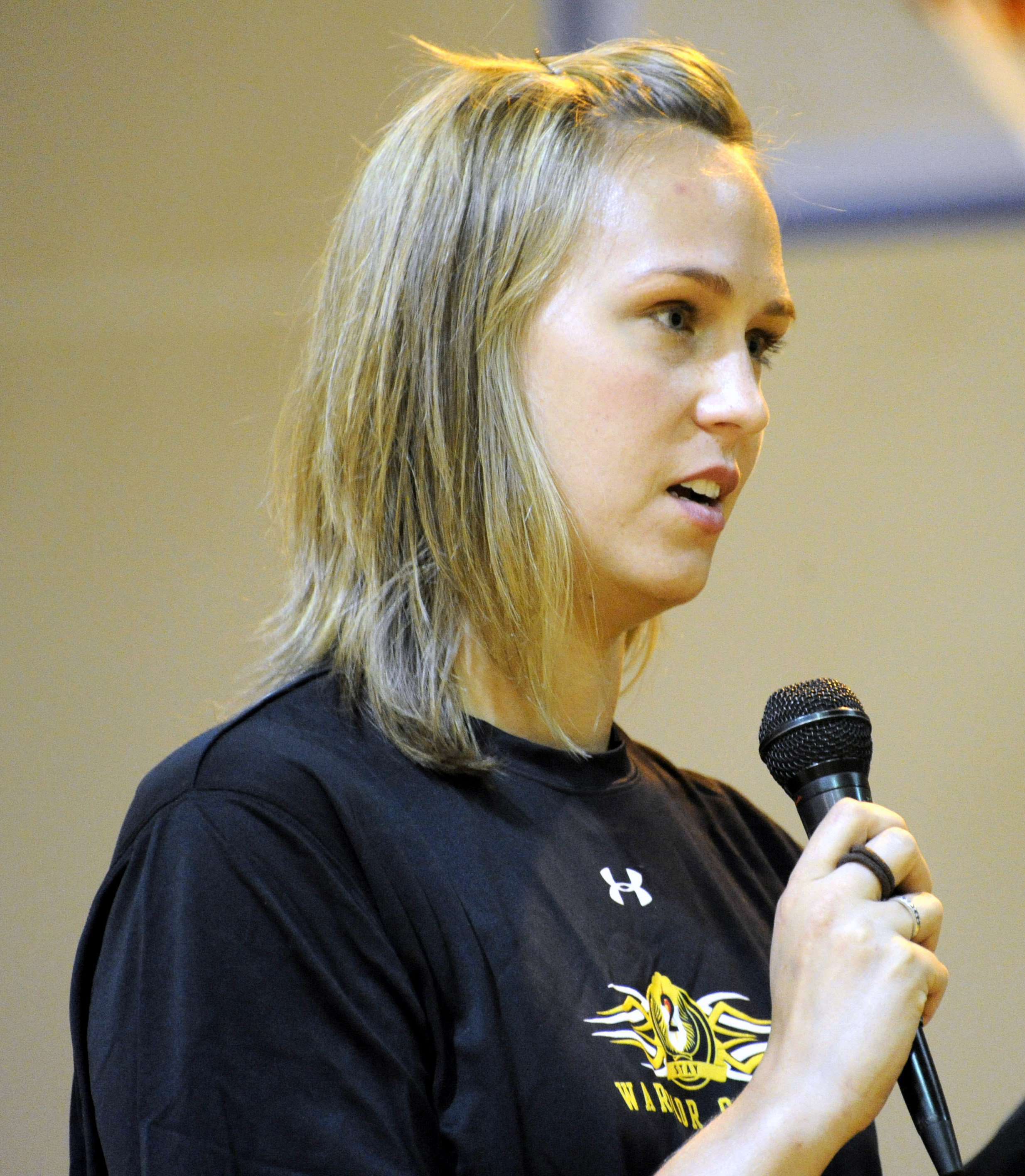 U.S. Olympic swimmer Carly Piper answers questions from U.S. Soldiers at Salie Gym at Forward Operating Base Warhorse in Diyala province, Iraq, Aug. 10, 2010. U.S. Olympic athletes visited Soldiers in Iraq as a part of the Olympic Hero Tour 2010 sponsored by Morale, Welfare and Recreation. (U.S. Army photo by Sgt. Brandon D. Bolick/Released) (excerpt from the original text)